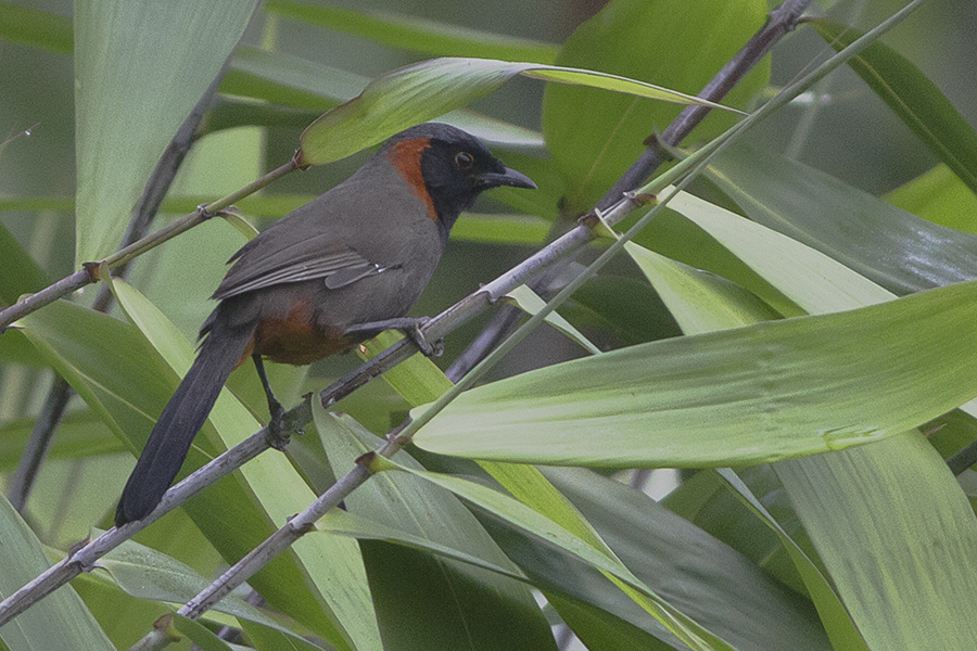 The species Rufous-necked Laughingthrush had been photographed at Mahananda Wildlife Sanctuary during GoingWild's birding trip; at West Bengal, India on 06.11.2015.